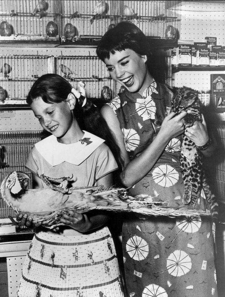 Natalie Wood and her sister Lana, publicity photo, 1956